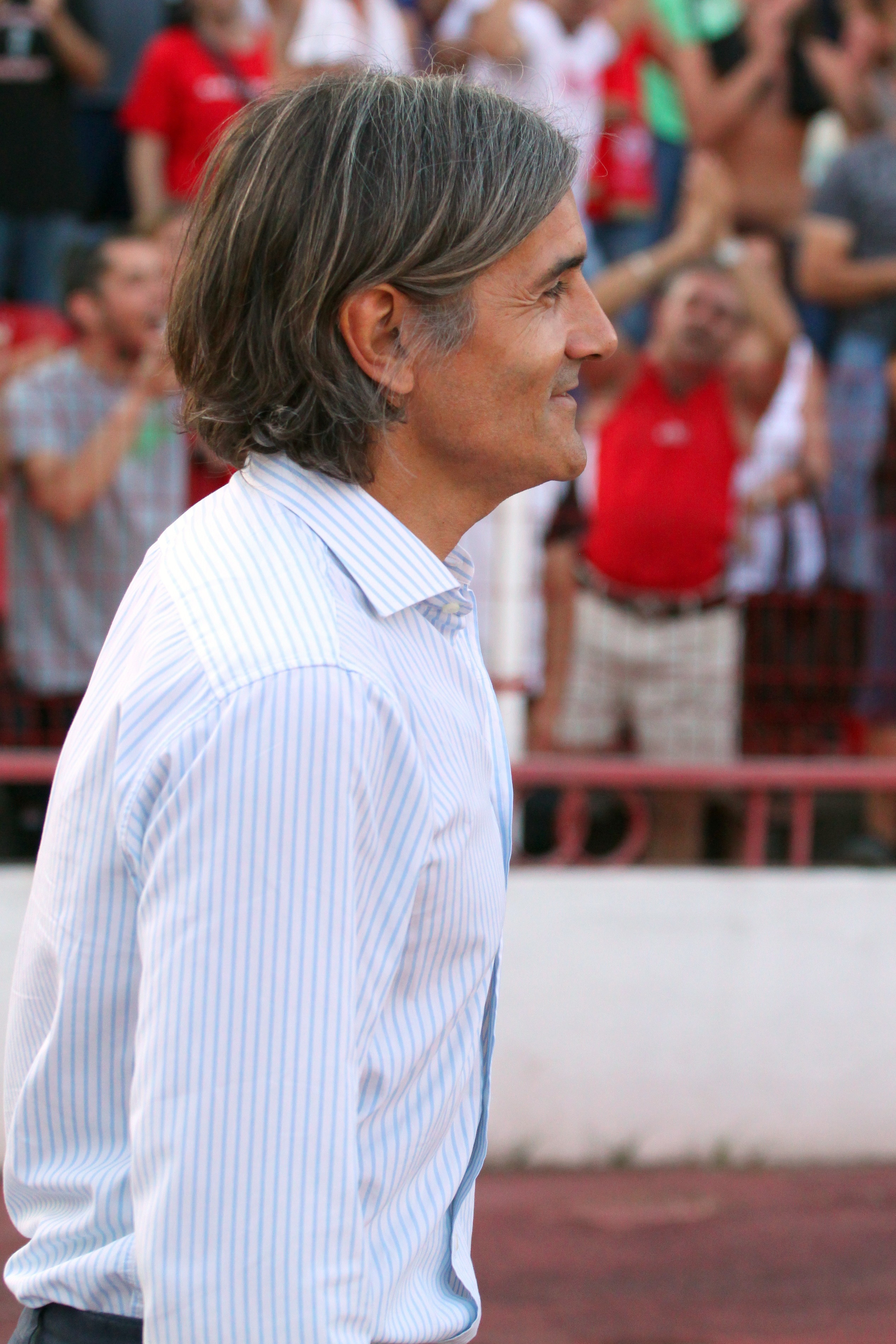 Rodolfo Vanoli - Sports director of CSKA Sofia